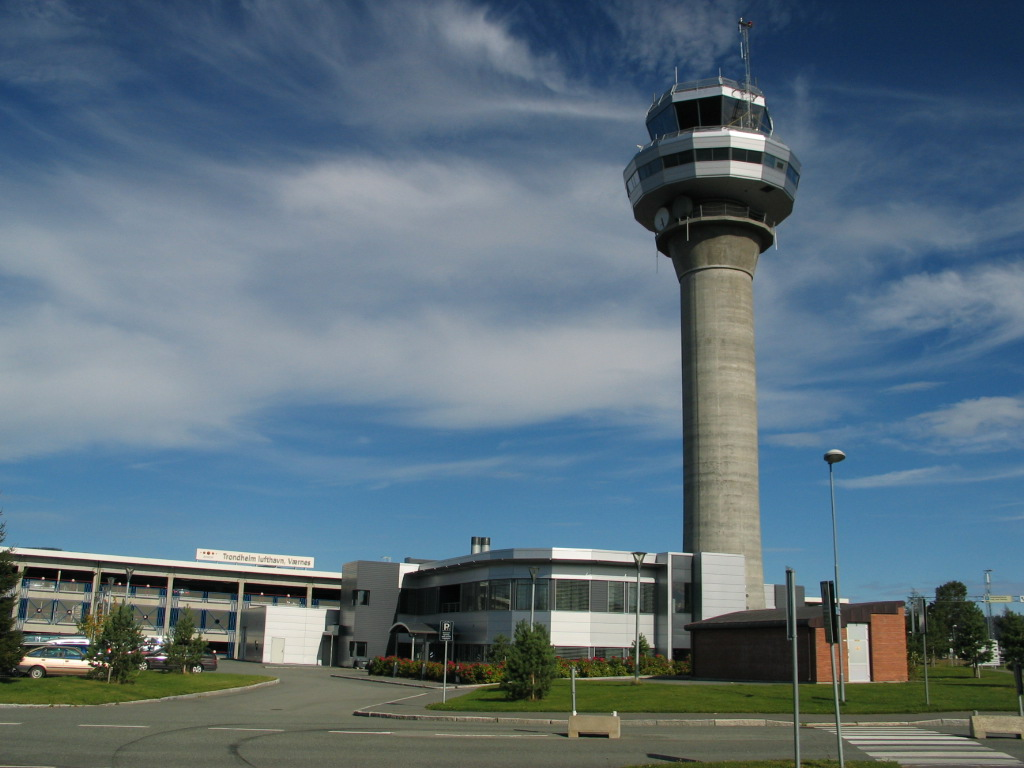 Trondheim Airport, Værnes